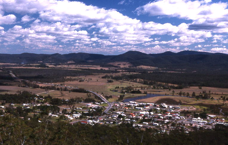 buladelah, australia